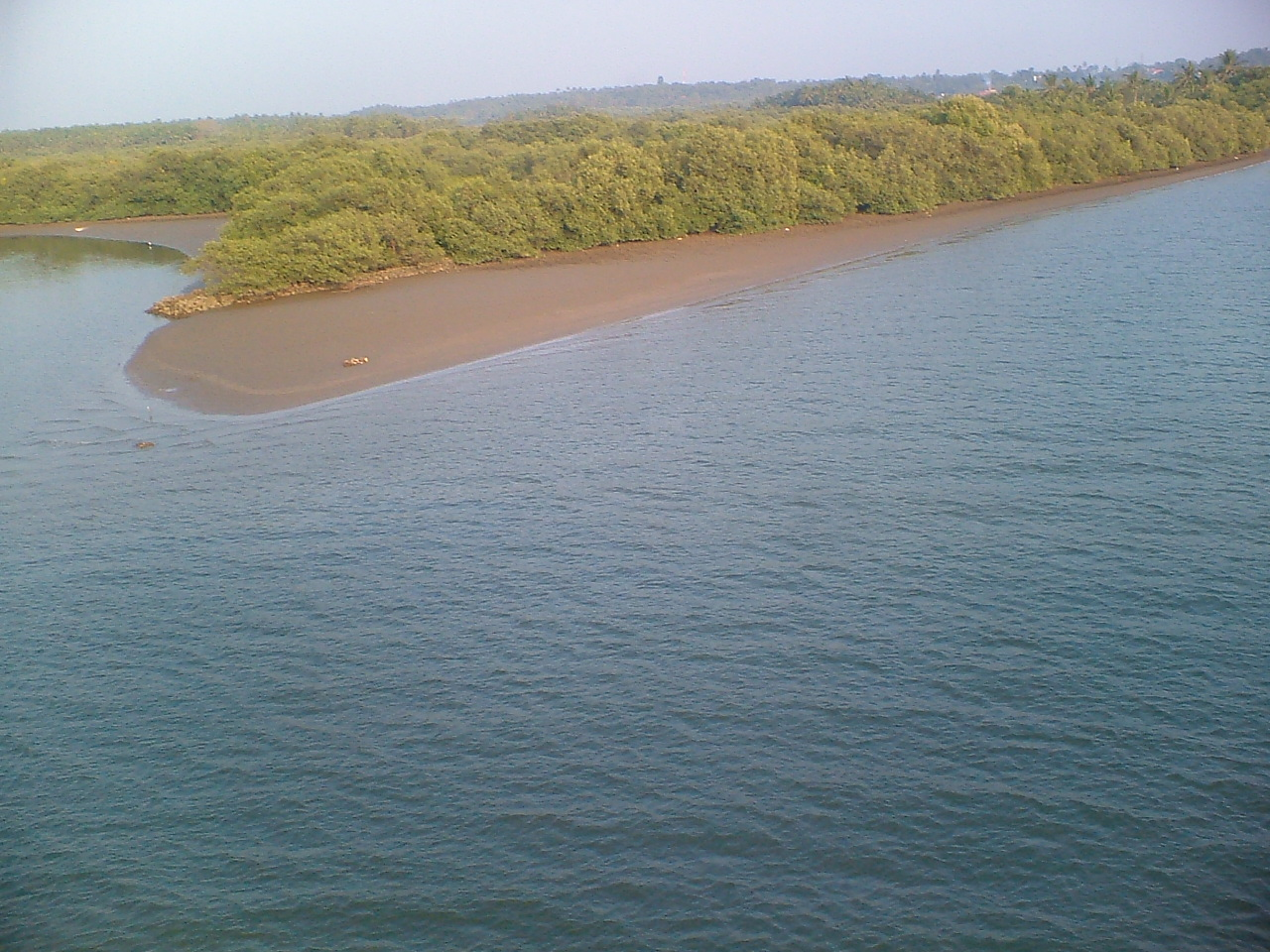 Mangroves near Valapattanam River, Kannur